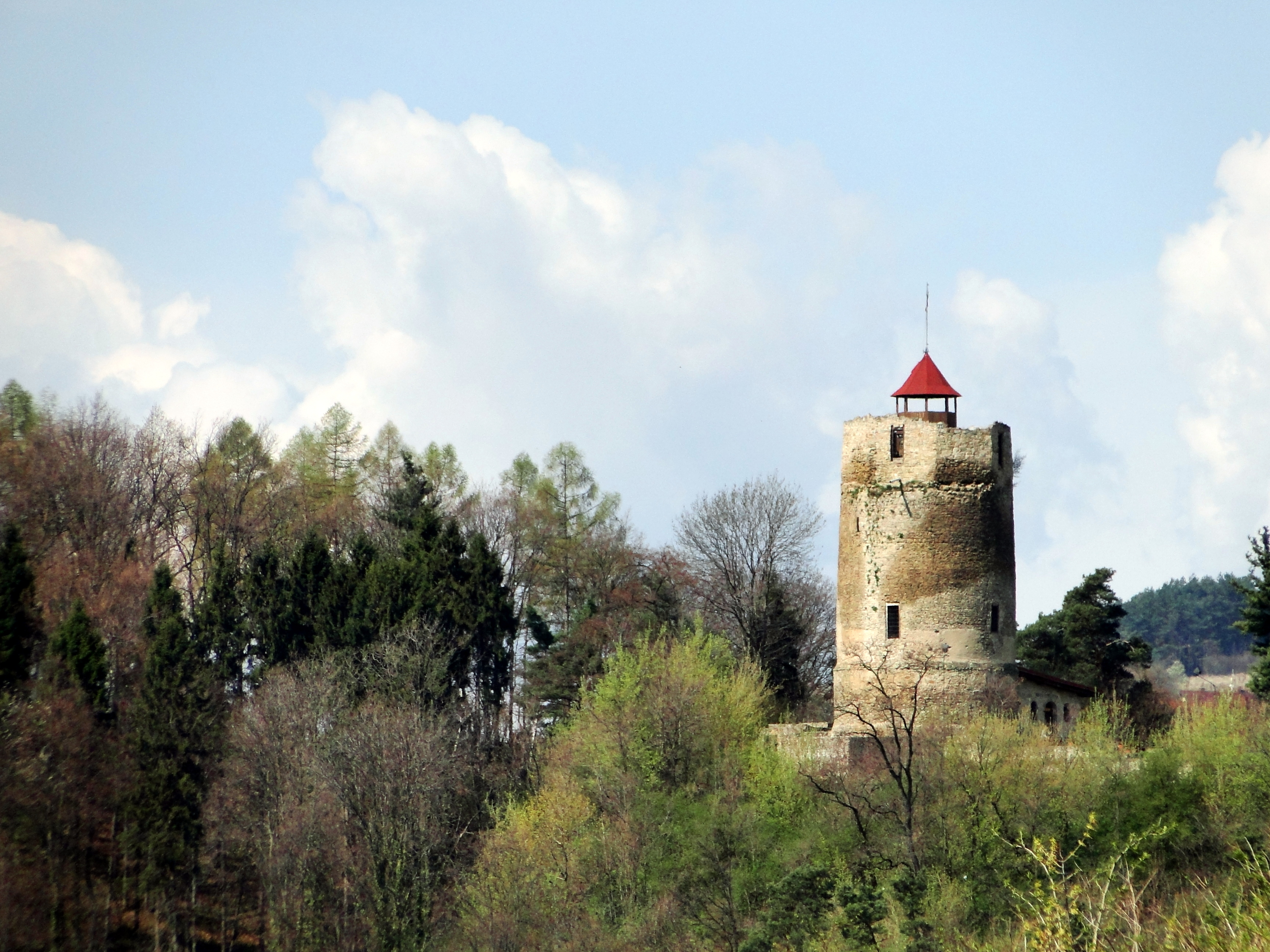 Czchów Castle seen from Piaski-Drużków